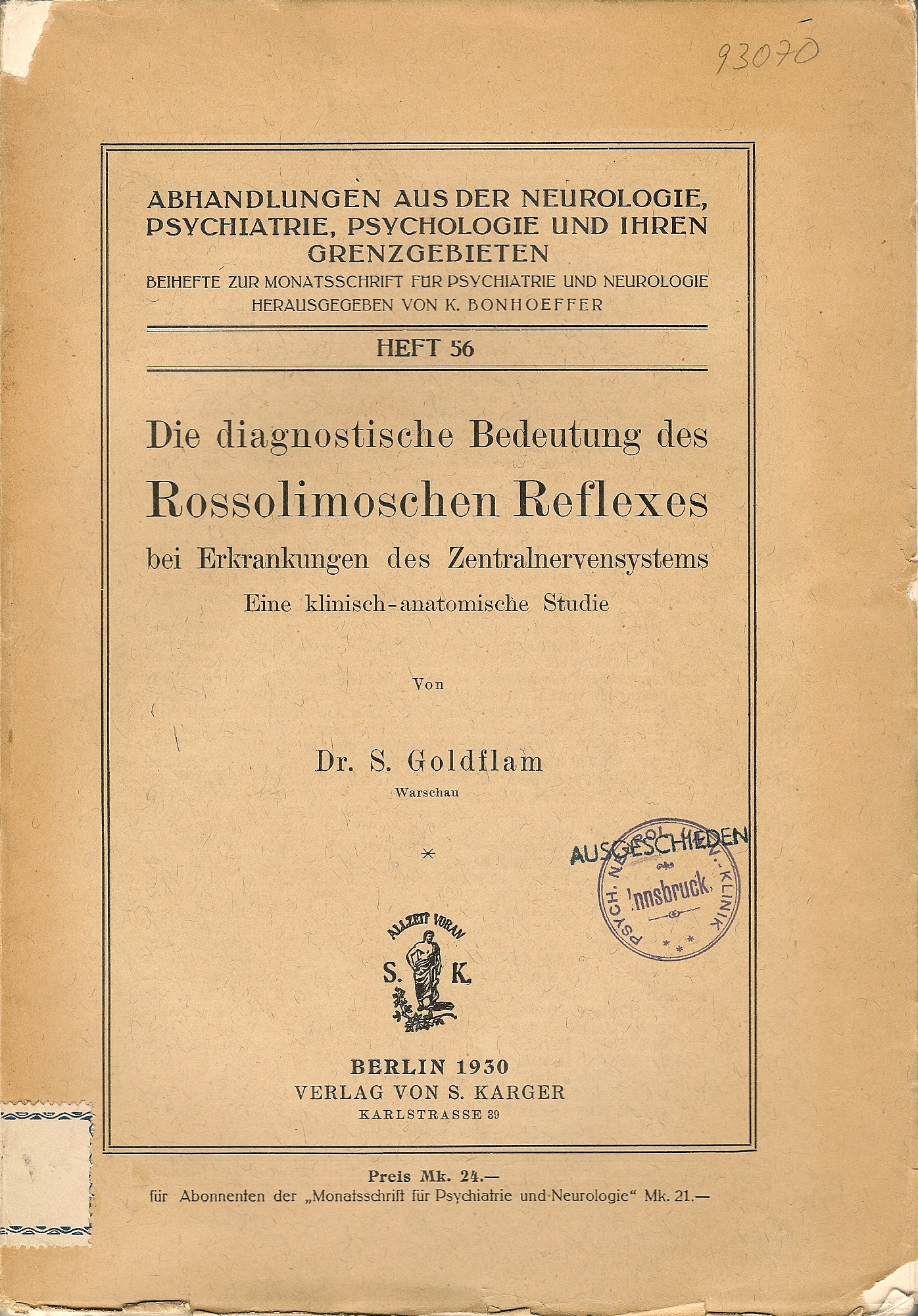 Front page of Goldflam's monograph on the Rossolimo reflex